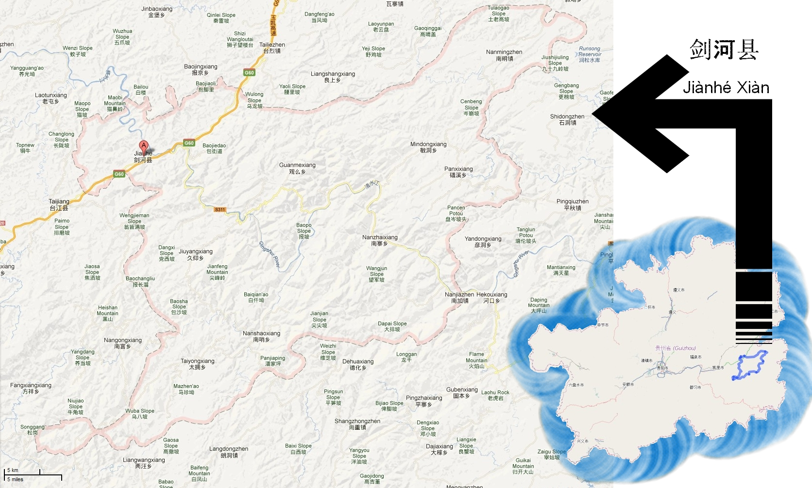 Jianhe County(剑河县)administrative area